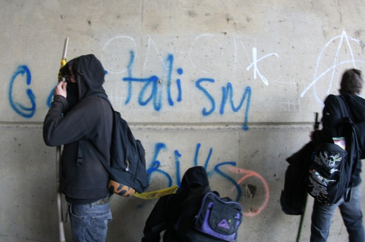 A black bloc element along with other protesters march from Washington D.C. toward the Pentagon in Arlington, Virginia on March 21, 2009 to protest America's involvement in the Iraq War. In this photo, black bloc members stop to spray graffiti on a wall. Photograph by Vic Reinhart, March 21, 2009.